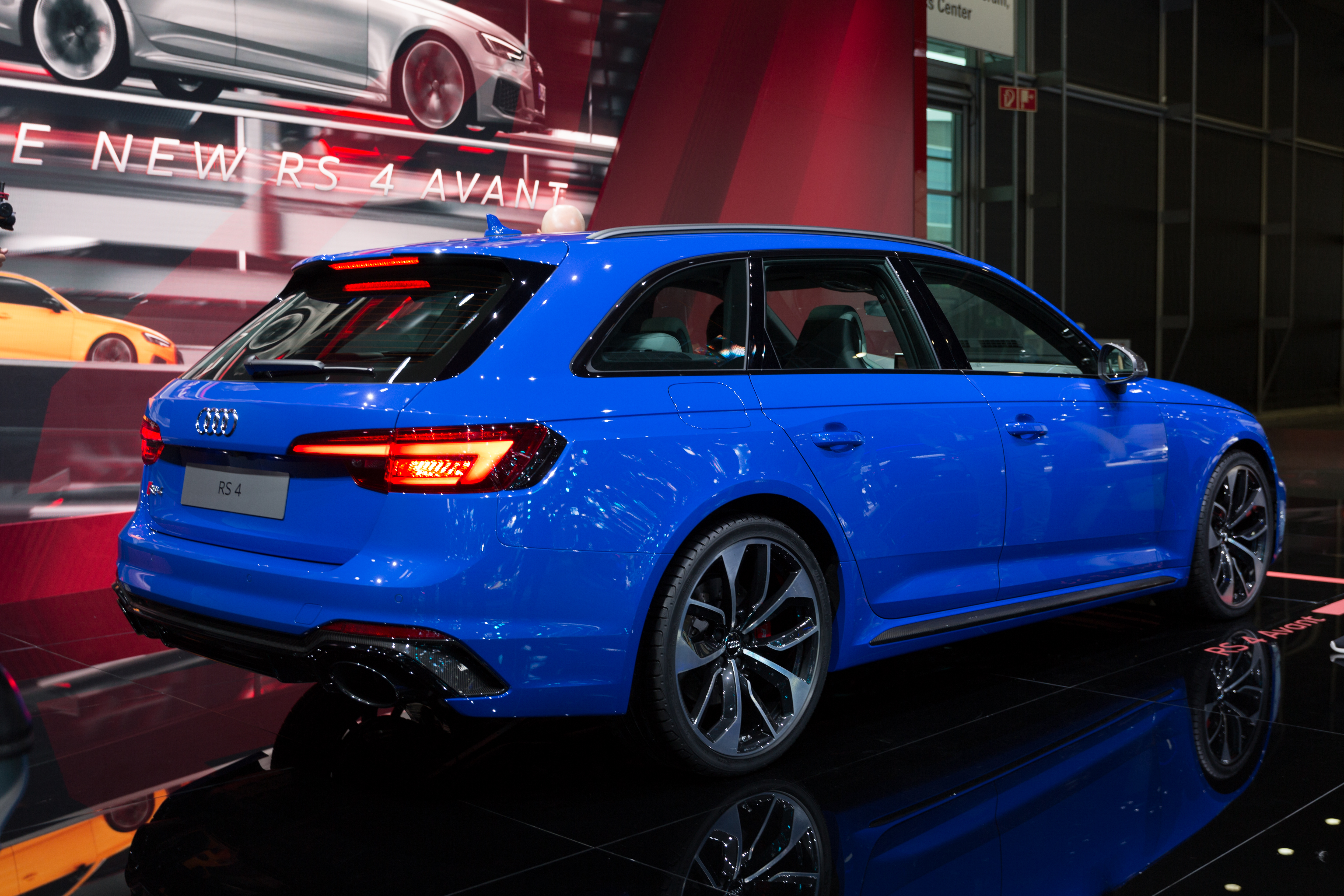 Audi RS4 Avant, IAA 2017